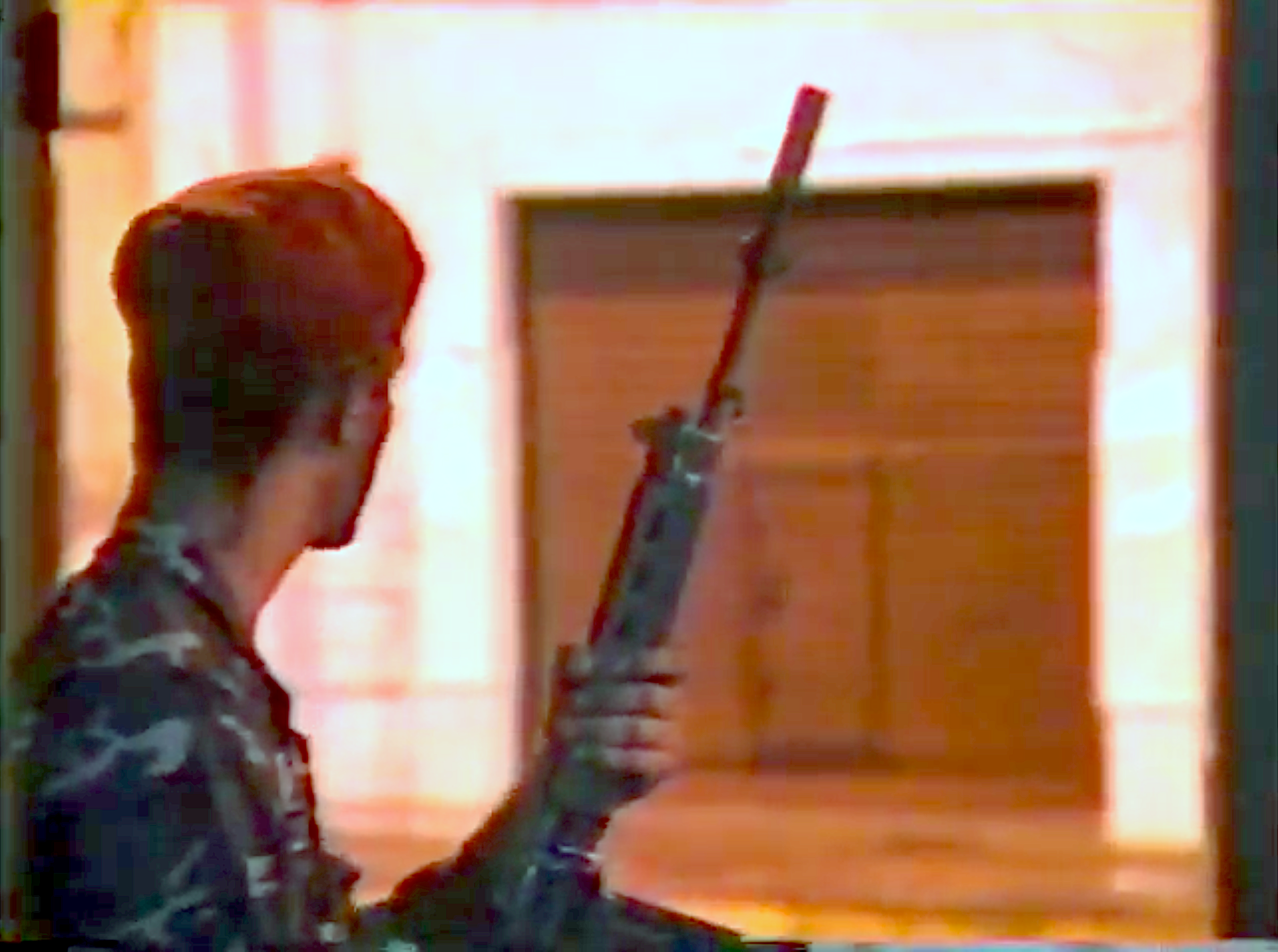 MBR-200 troop armed with an FN FAL